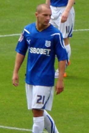 08/08/10 Cardiff V Sheffield United, Championship, Cardiff City Stadium, Cardiff, Wales